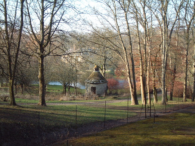 Dewlish House. This fine house can be glimpsed through the trees on the other side of a lake. The purpose of the circular building in the middle of the photograph is not known - possibly a dovecote or ice house. Any ideas?